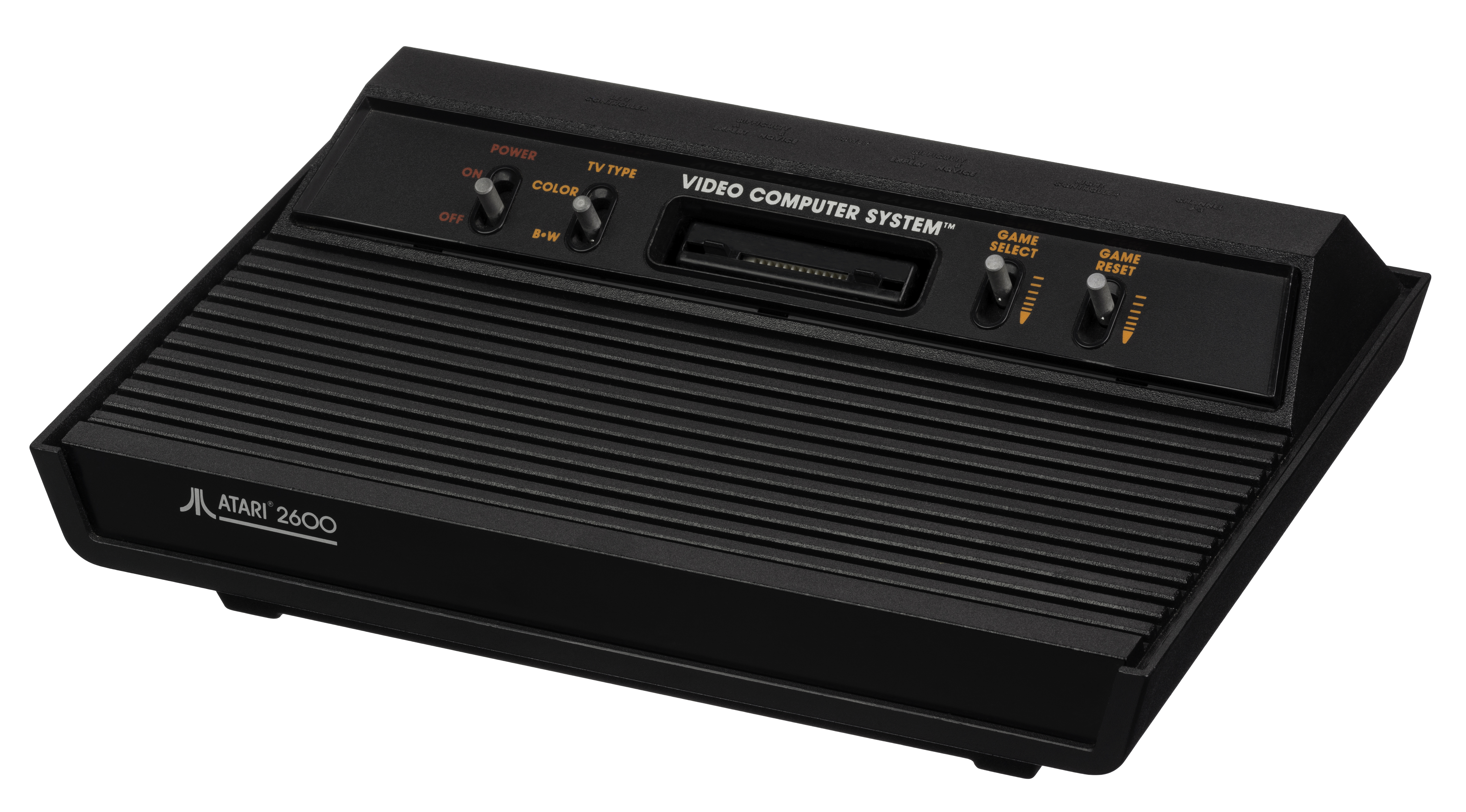 The Atari 2600, a video game console released by Atari in 1977. Originally called the Atari Video Computer System, the system was the most popular gaming console of the late '70s and early '80s. This model is the all-black "Vader" unit with 4 front switches.